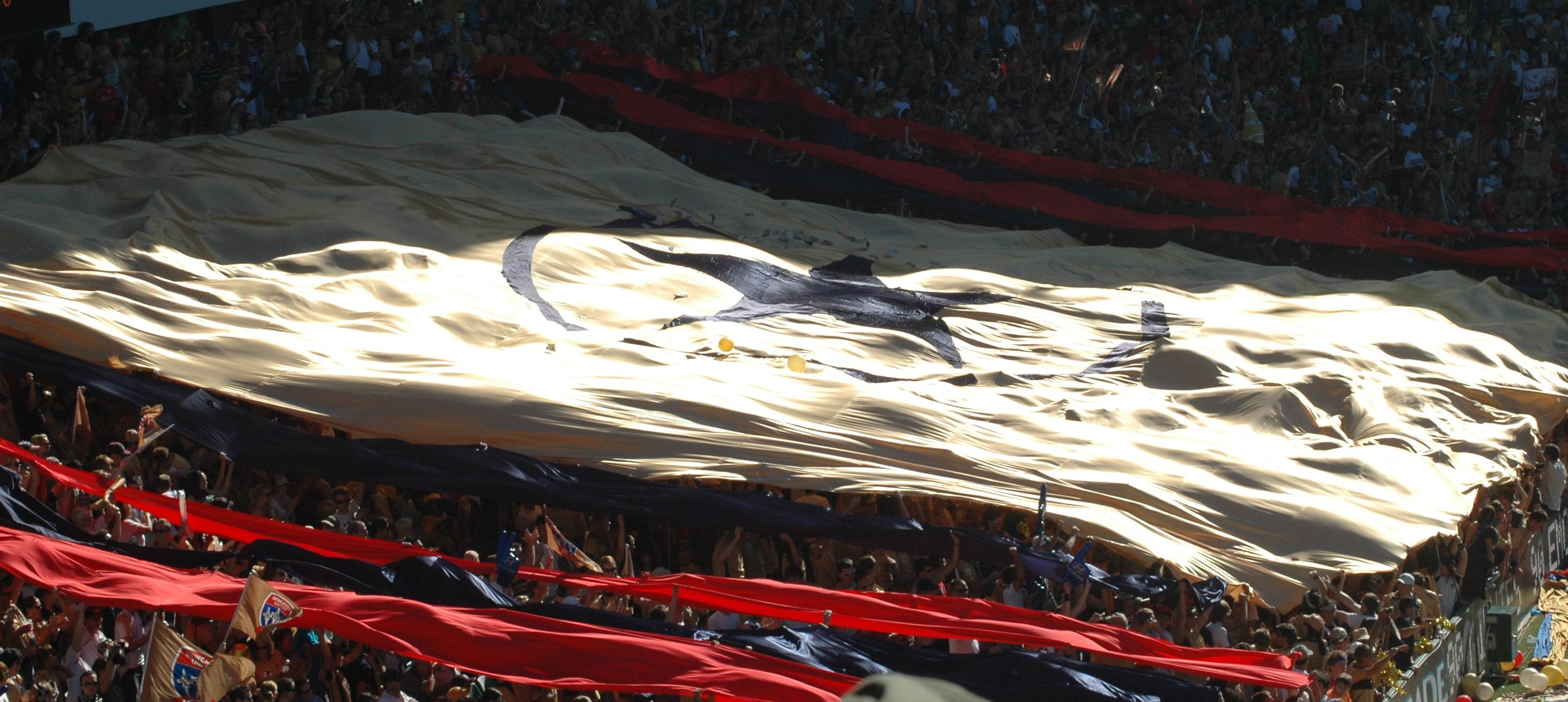 Squadron banner at 2008-09 A-League Grand Final